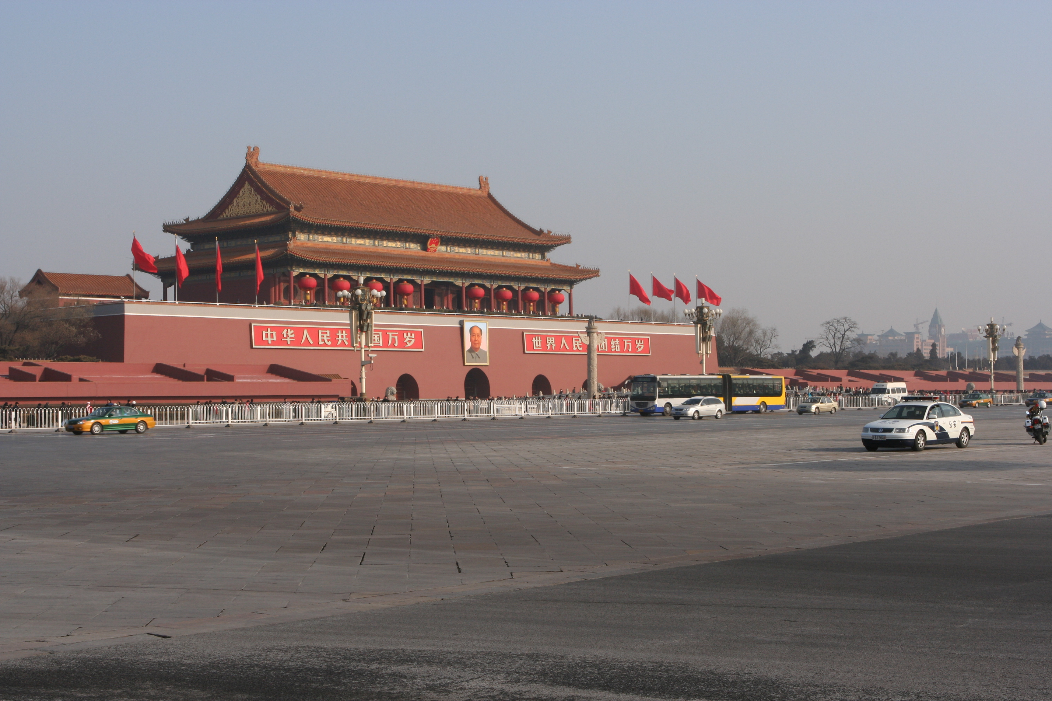 The Tiananmen in Beijing